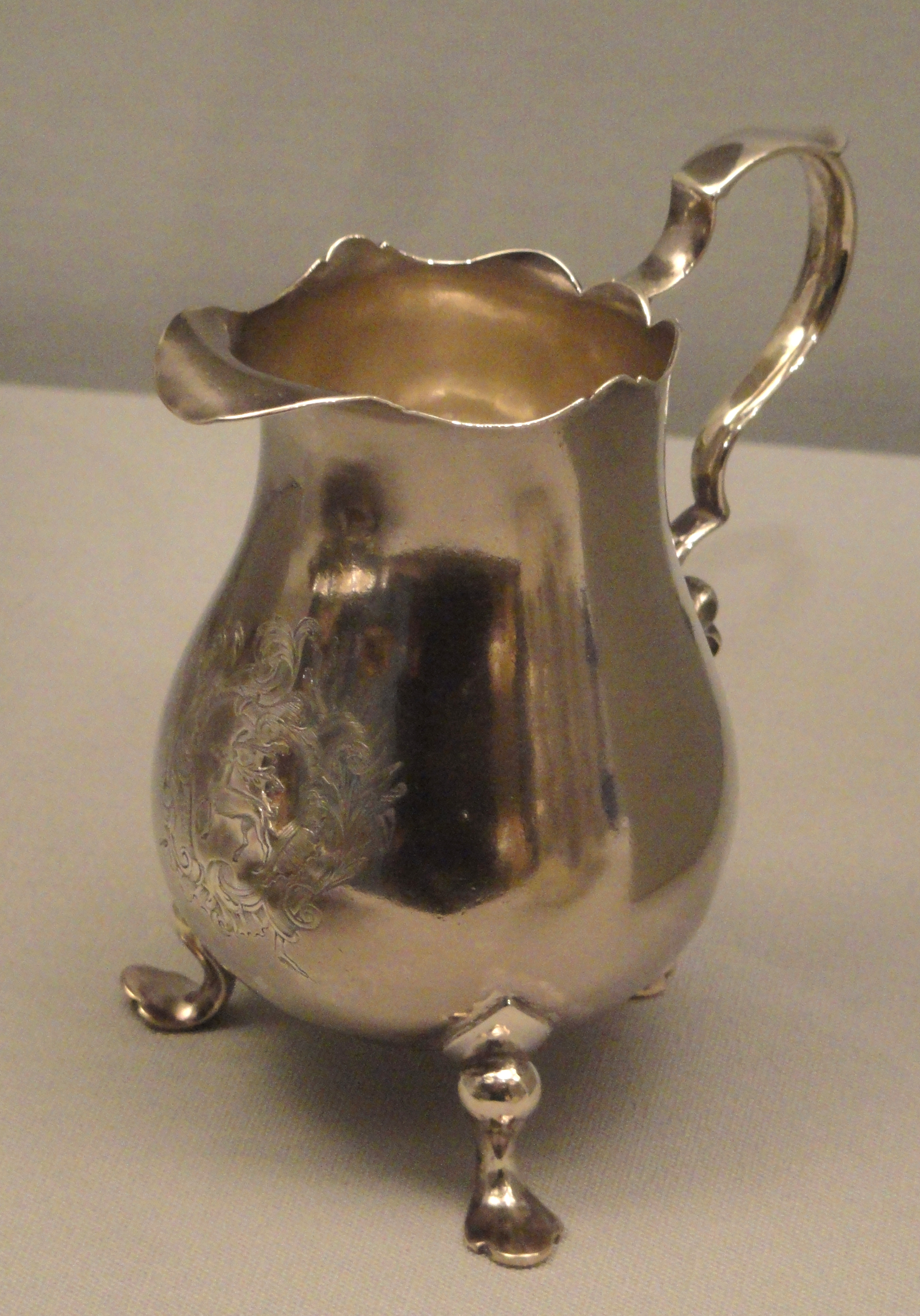 Creampot, James Turner, Boston, c. 1750-1759, silver - Hood Museum of Art, Dartmouth College, Hanover, New Hampshire, USA. This work is in the public domain because the artist died more than 70 years ago.